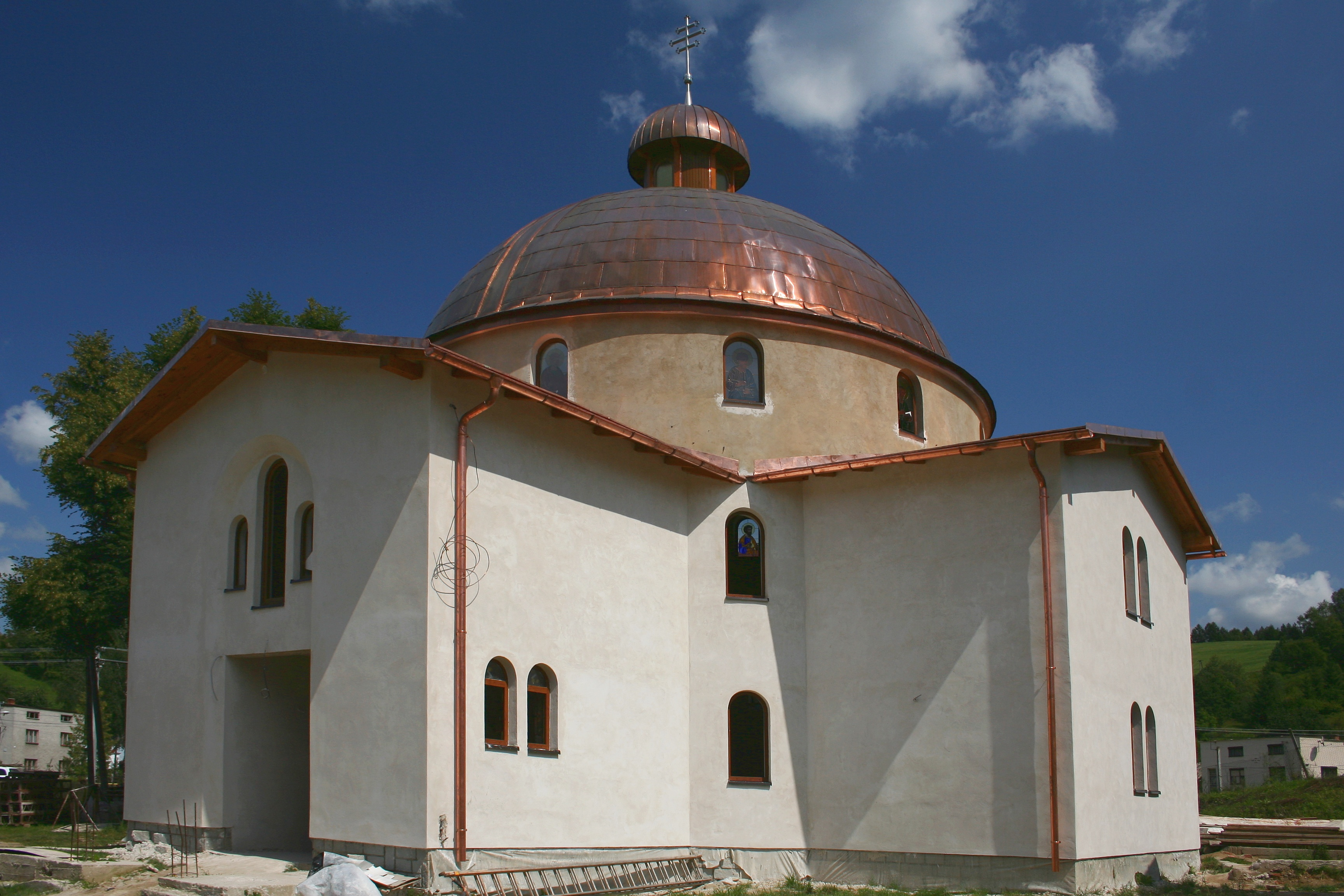 new cerkiew in Matiaška, village in Slovakia